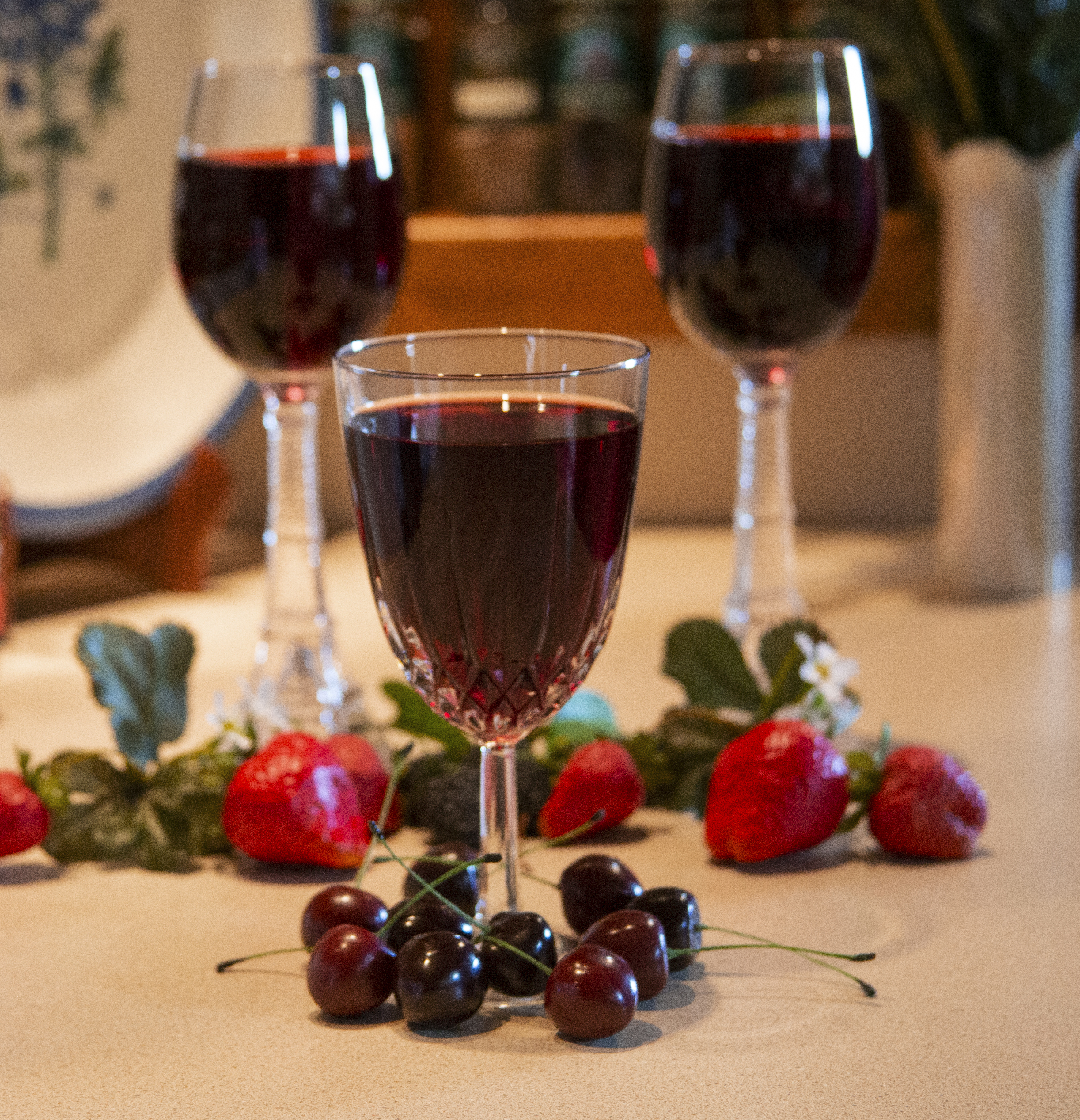 Montmorency Cherry juice in an arrangement with fruit garnish around the base of each glass